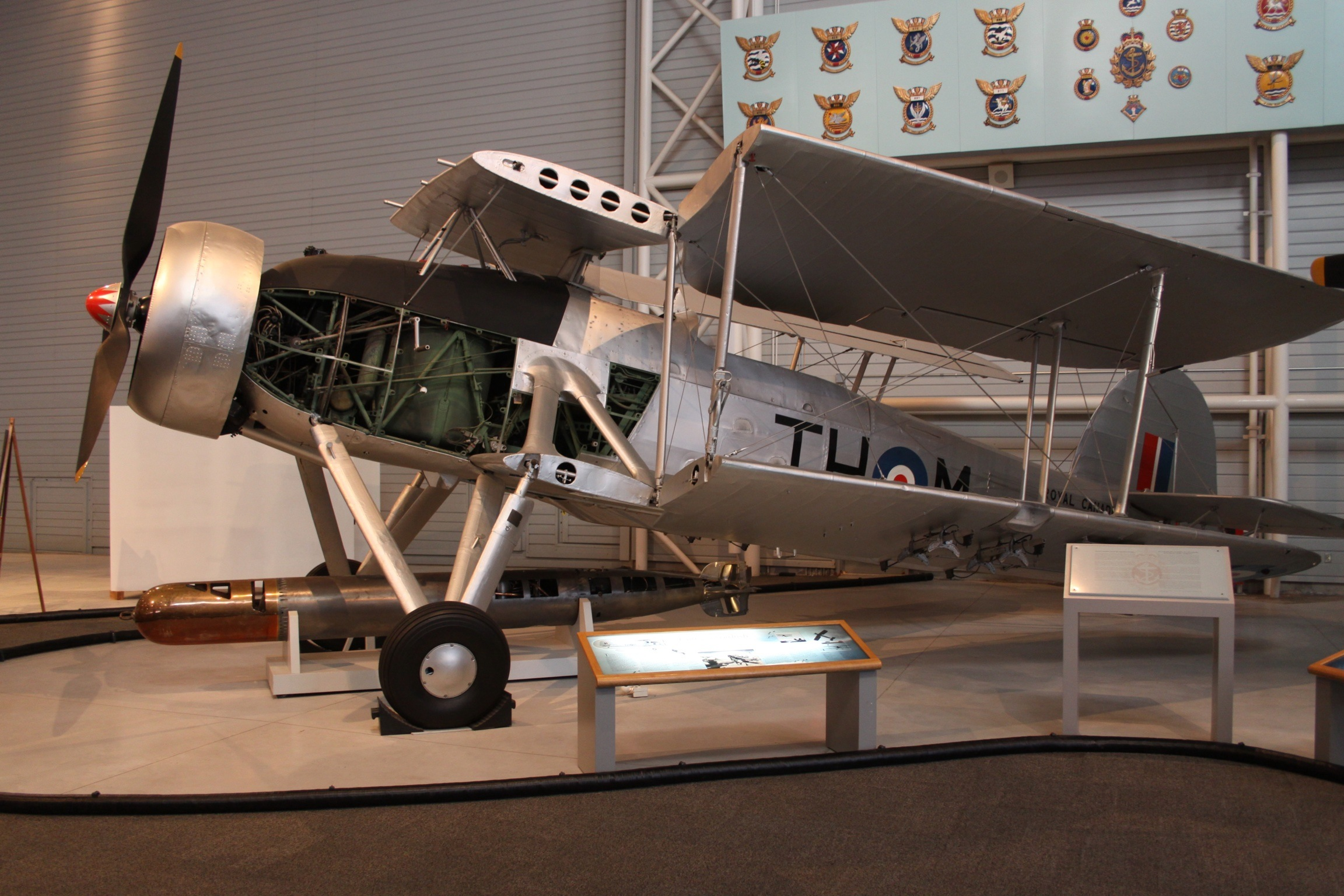 At Rockcliffe Canada Aviation Museum